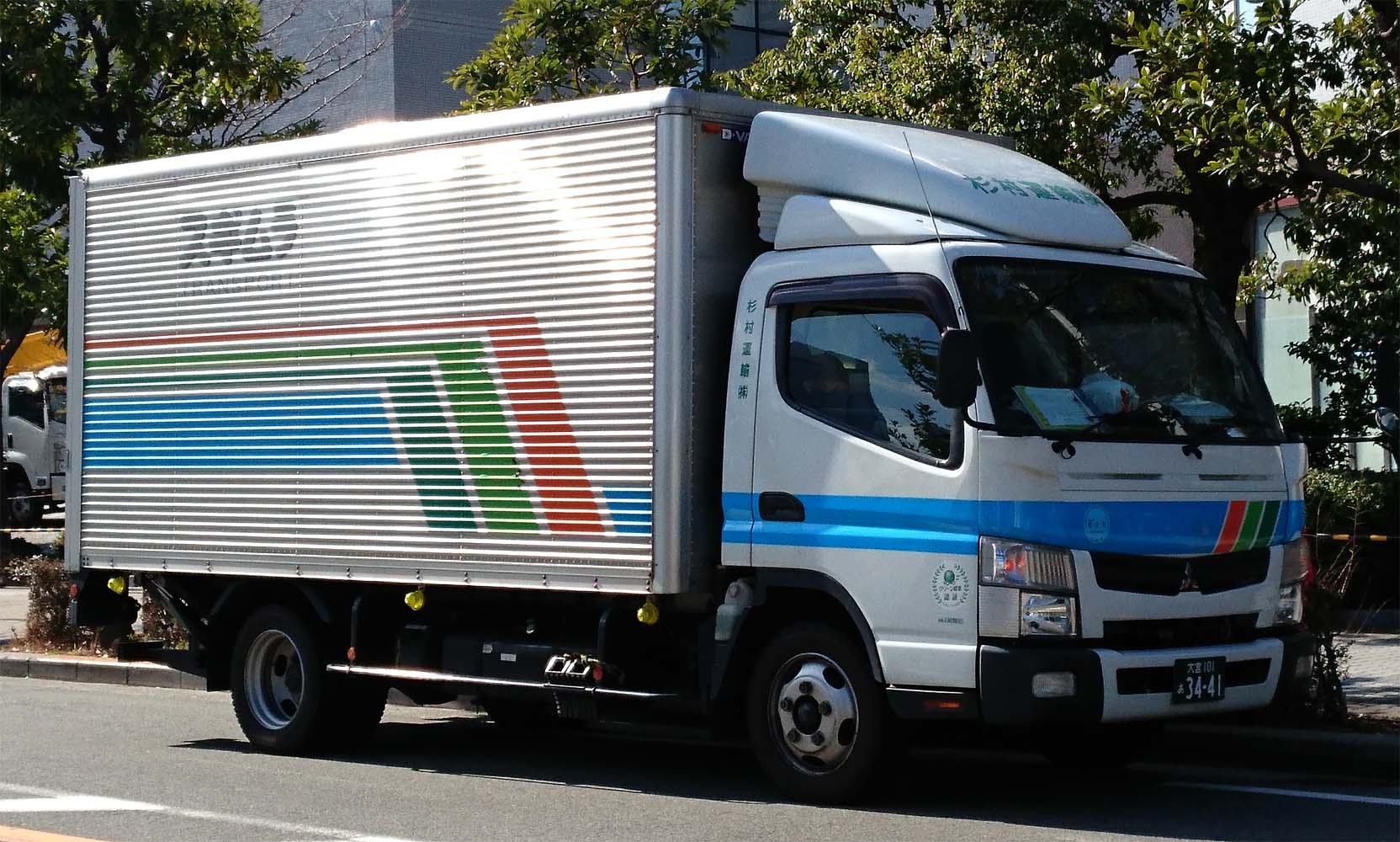 Sugimura Transportation Co.,Ltd. truck